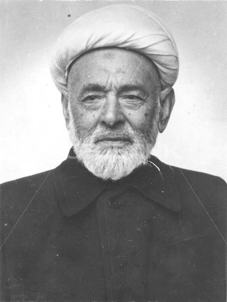 Akhund Agha Alizade, first Sheikh-ul-Islam of Azerbaijan Democratic Republic.